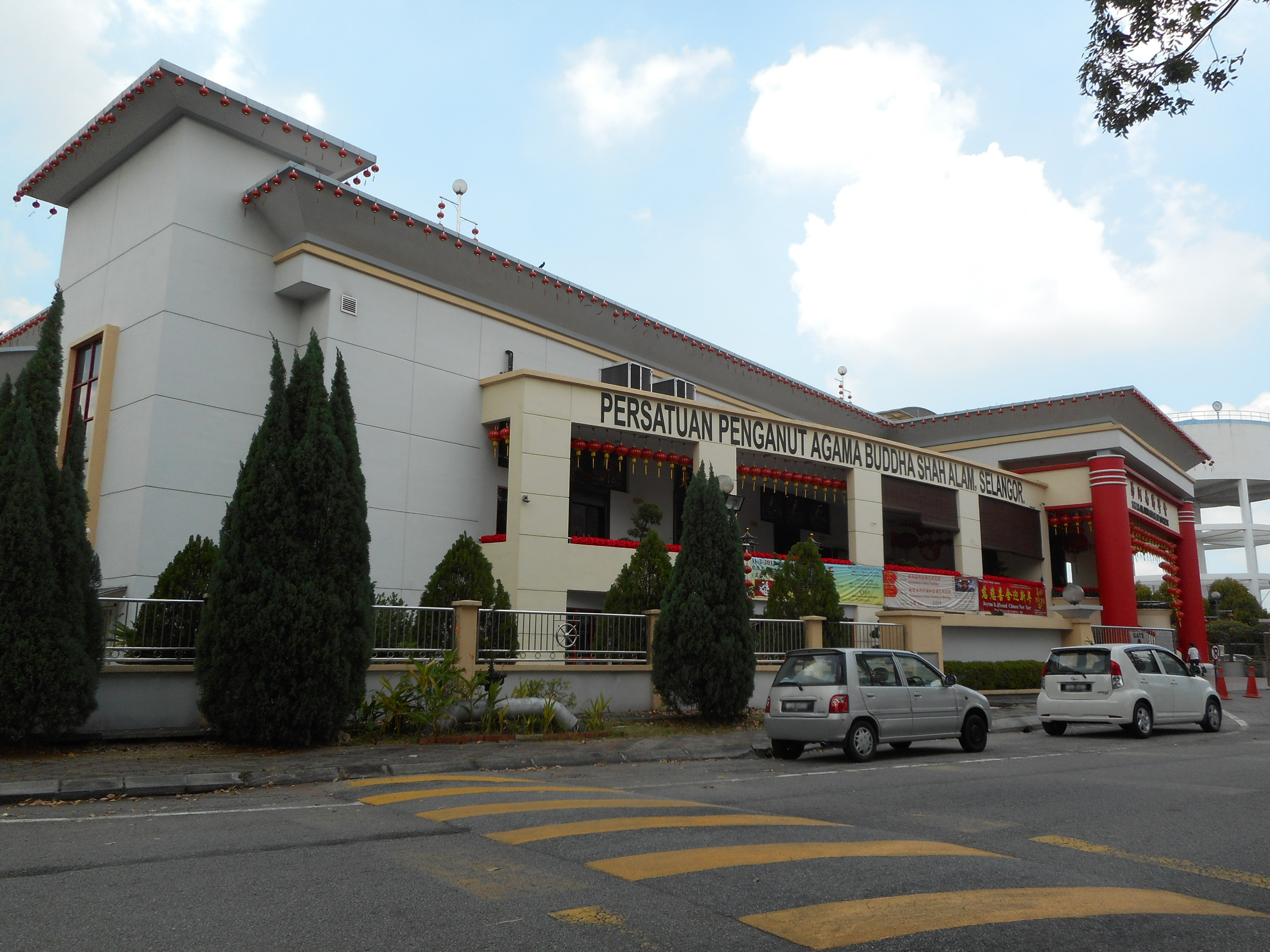 Shah Alam Buddhist Society, Bukit Rimau, Shah Alam, Klang, Selangor, Malaysia